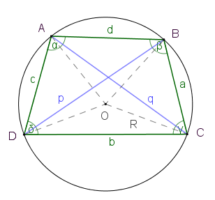 elements of a cyclic quadrilateral